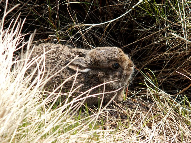 A Mountain Hare Leveret Trying its best to hide; not often your lucky enough to stumble upon one of these little fellows.